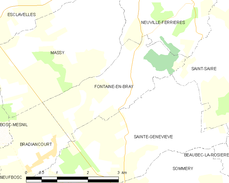 Map of French municipality Fontaine-en-Bray